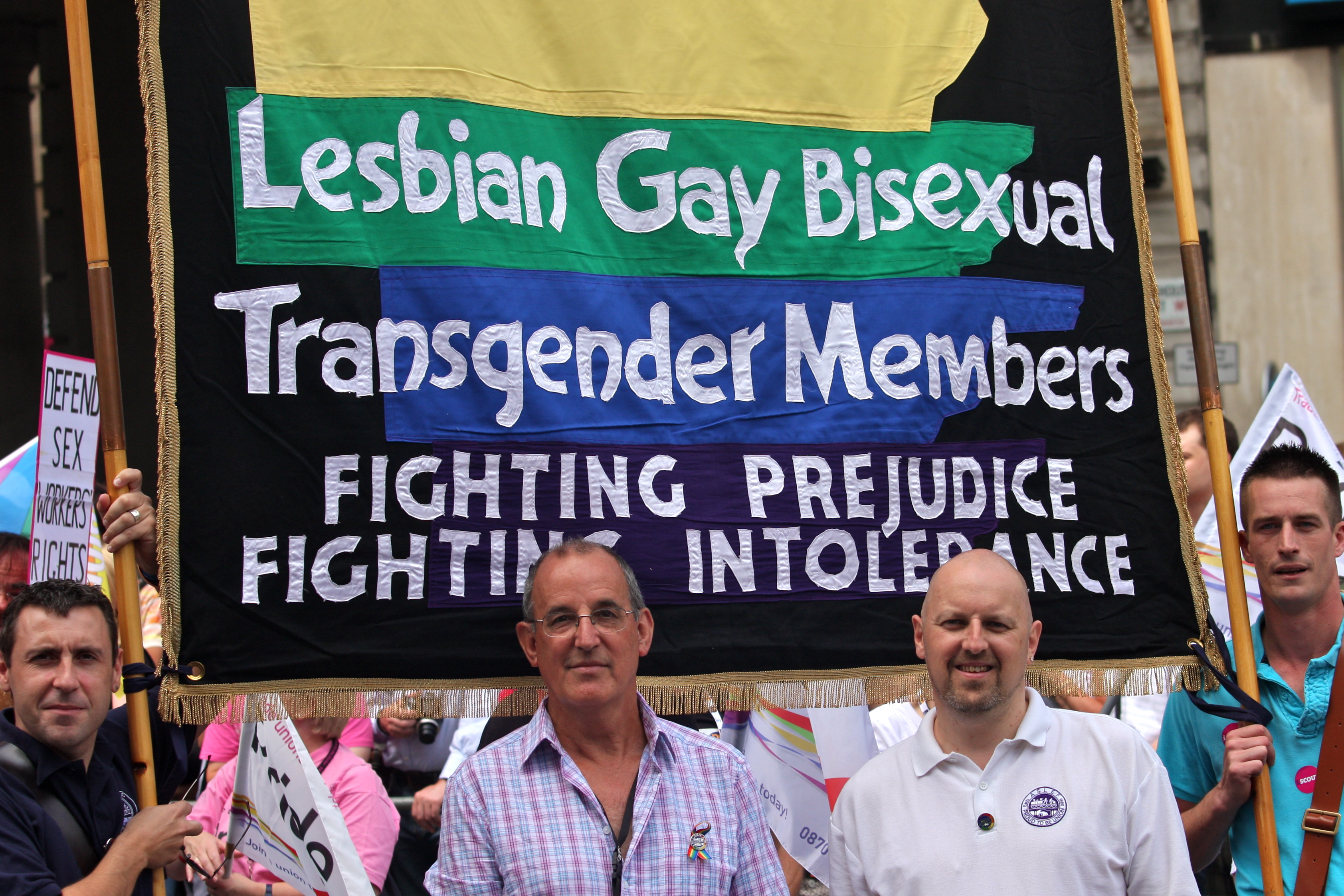 Pride 2009